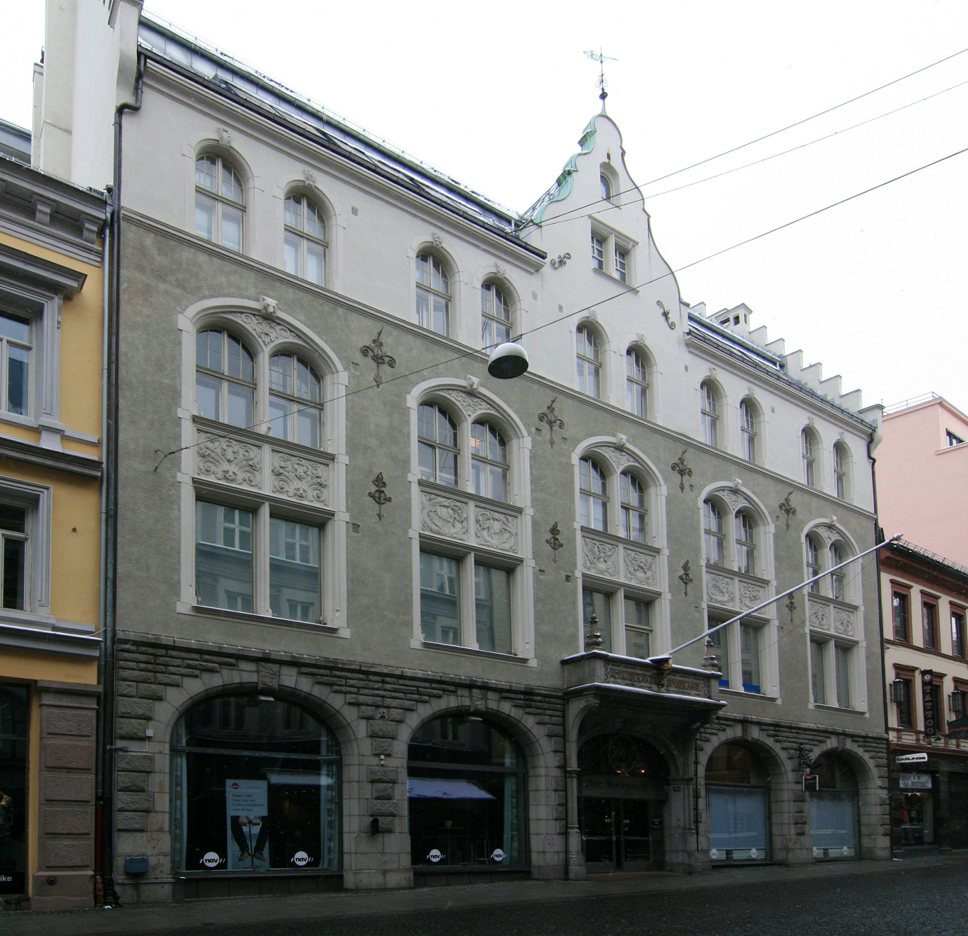 Øvre Slottsgate 11, Oslo. Built 1896. Architects: Ivar Cock and Olaf Lilloe.